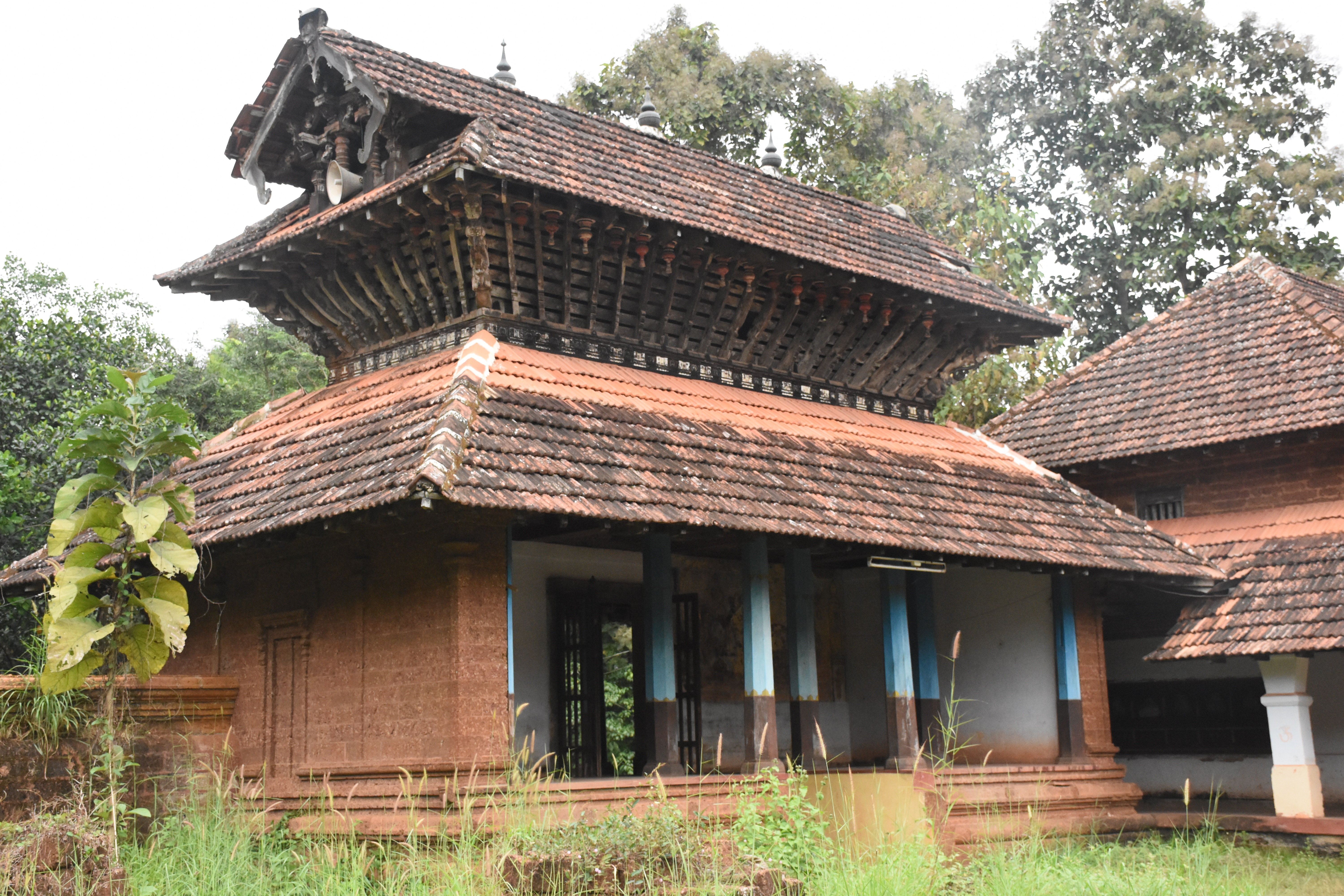 Kadamberi Chuzhali Bhagavati Temple is an ancient temple located at Kadambery, Anthoor Municipality, Kannur Dist. The temple has lot of interesting architectural features that are degrading